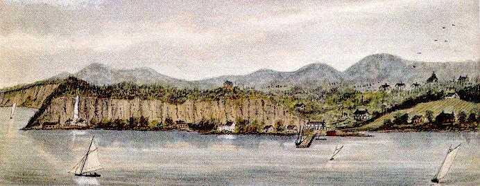 Painting of Snedens Landing, NY looking west across Hudson River.